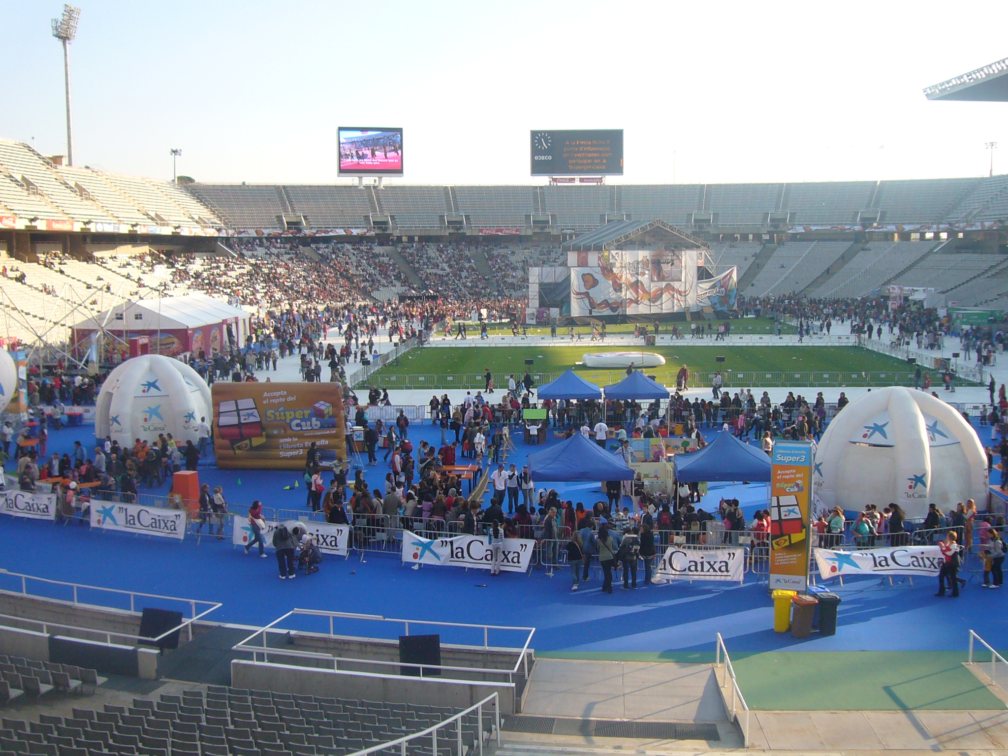 Estadi de Montjuic - festa super3 - 2010